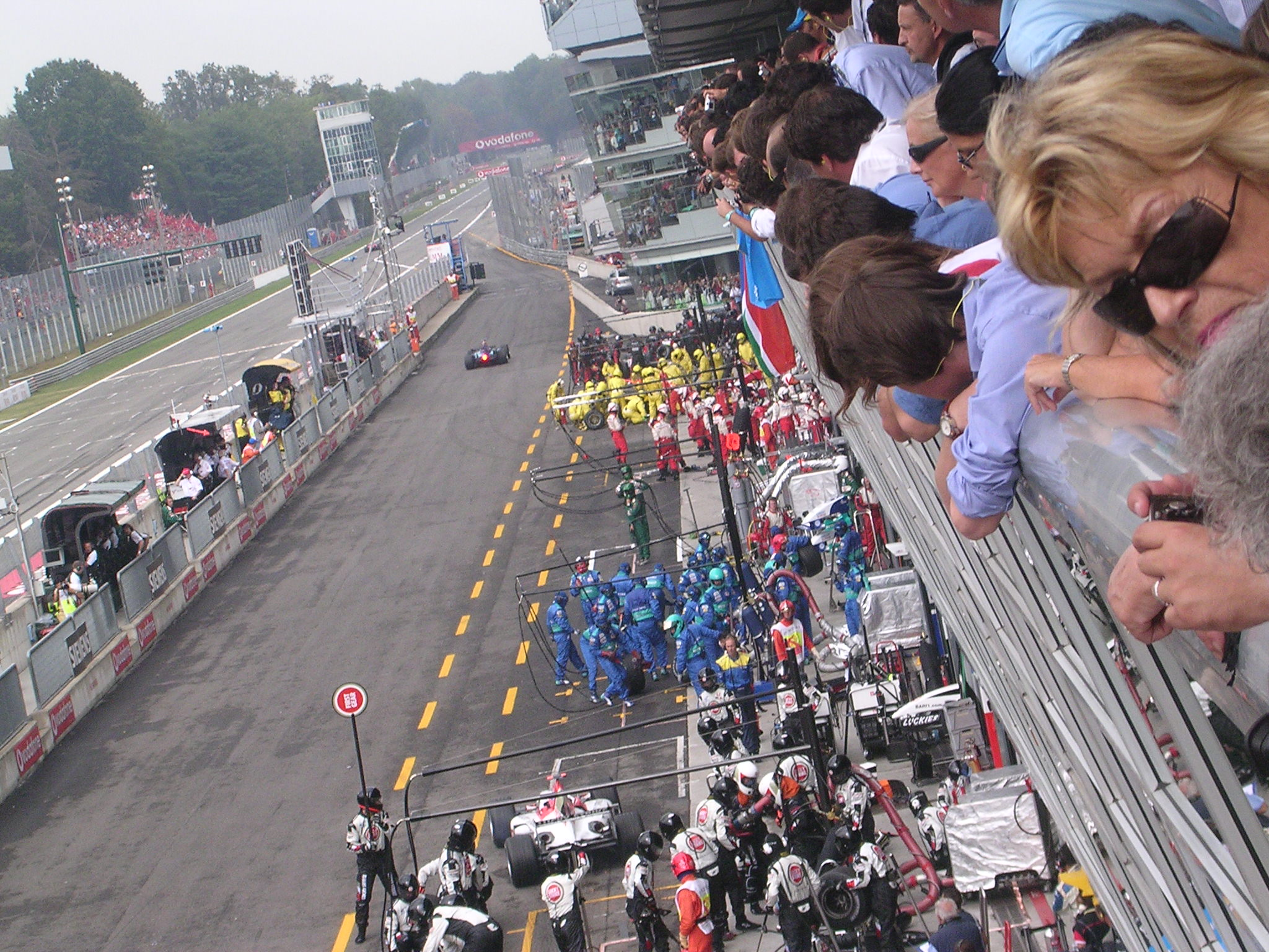 The Autrodomo Nazionale of Monza (italy) during a race in september 2004